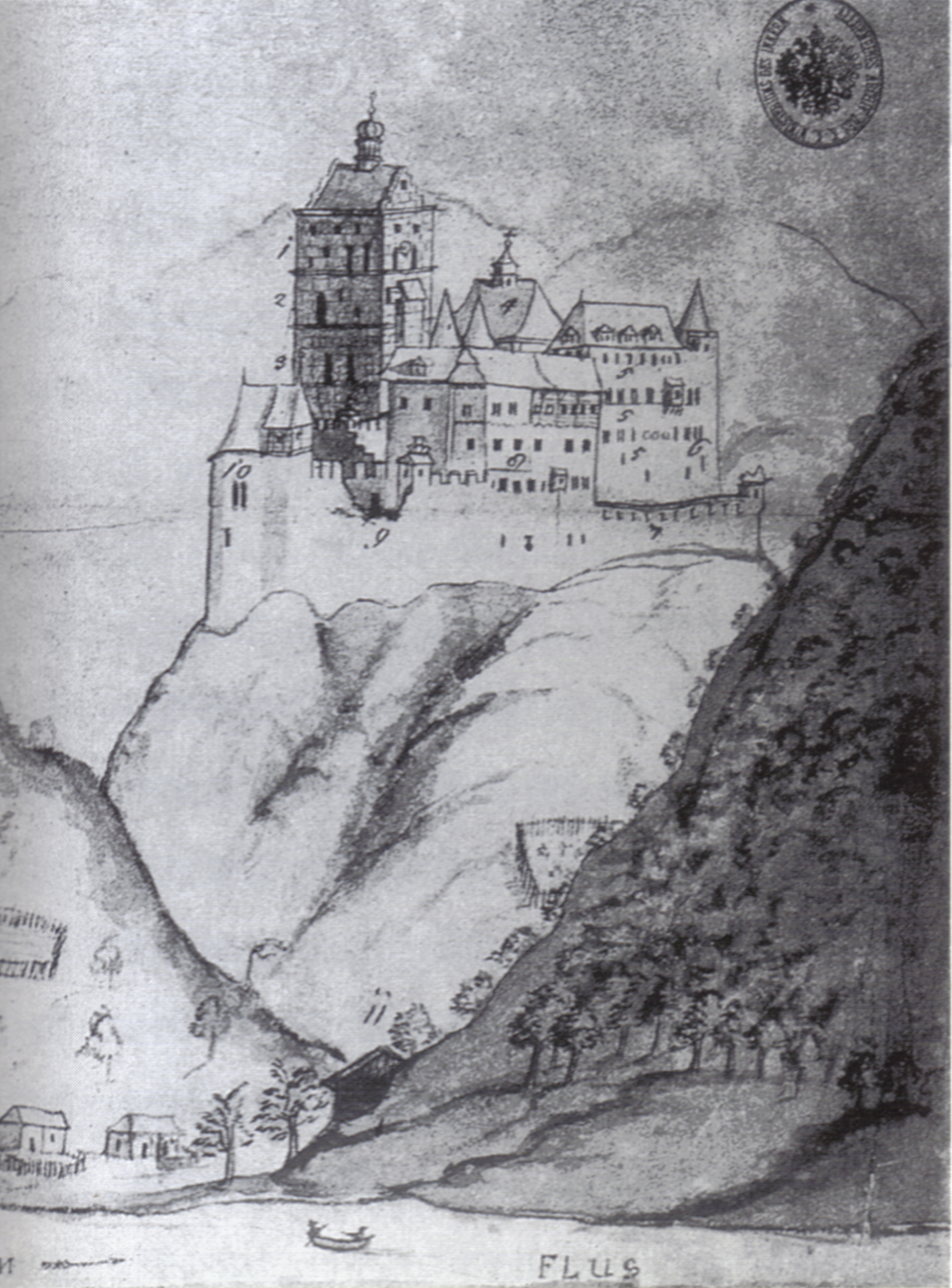 Burg Karlstein (near Prague), viewed from southwest, oldest known picture today in Prague, National archive, EDK 1 B1/9